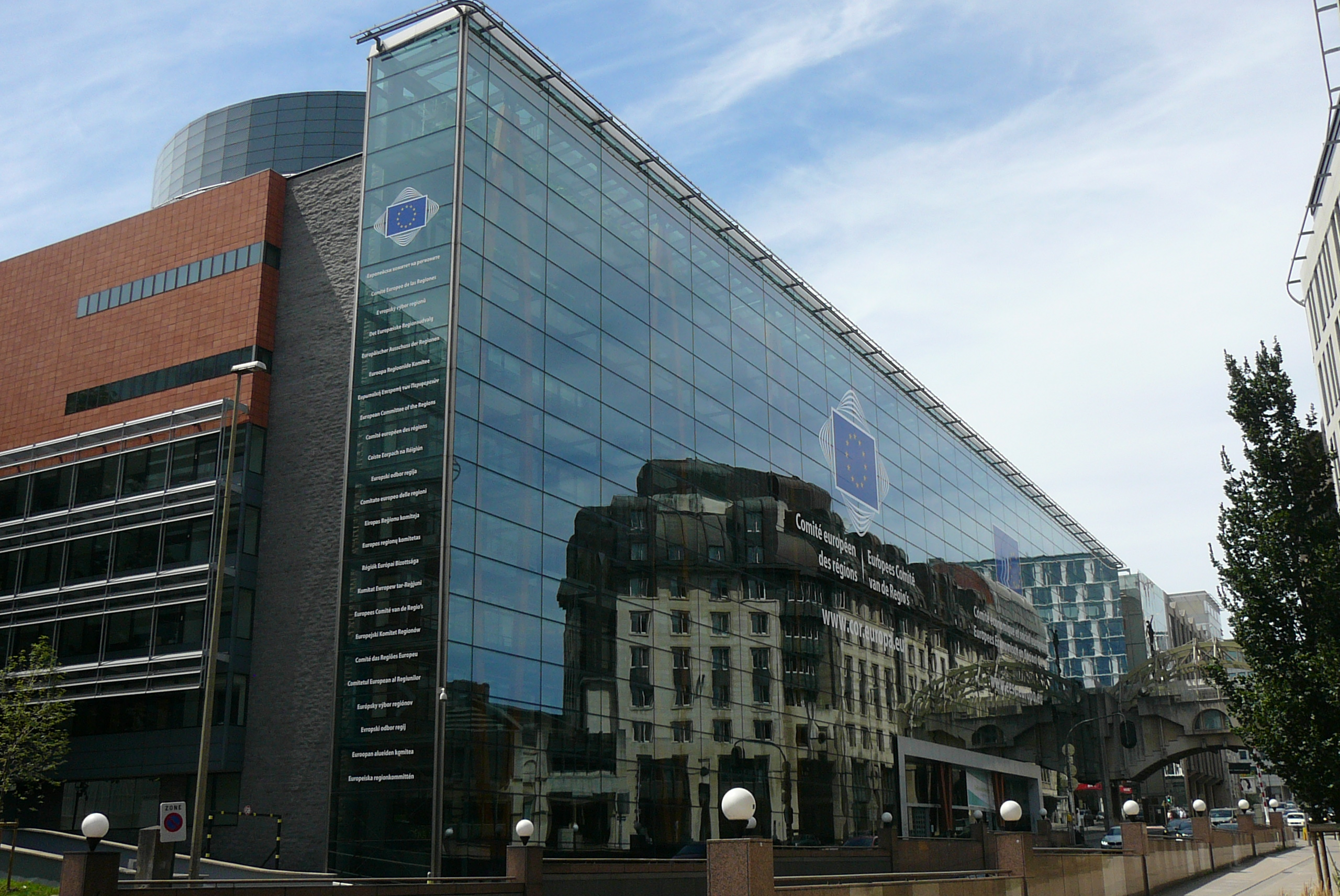 Jacques Delors Building, headquarter of the European Committee of the Regions and the European Economic and Social Committee, in Brussels, Belgium